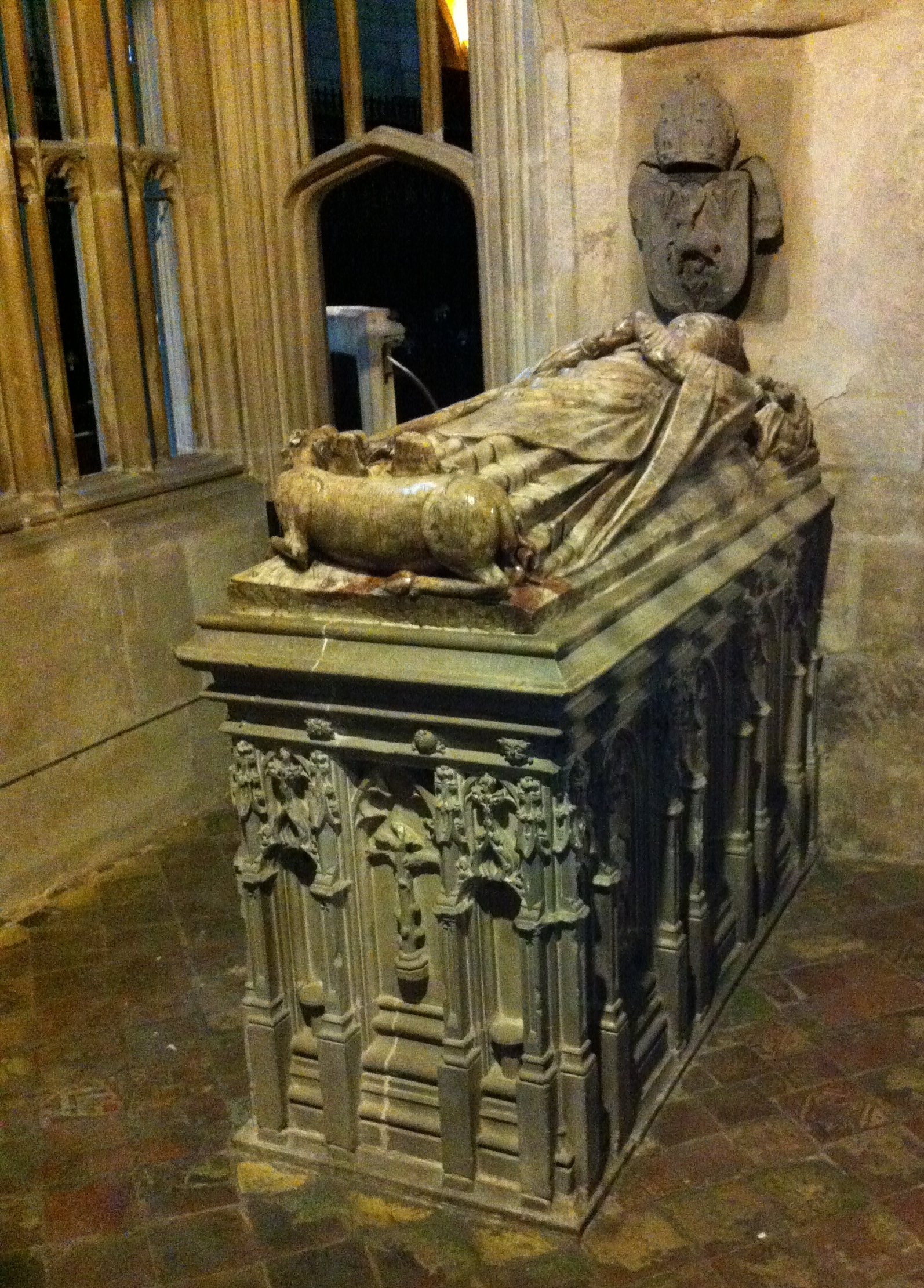 Abbot William Malvern, alias Parker, last abbot of St Peter's Abbey. This impressive screen and tomb was erected between 1514 and 1539, but he was never buried here.